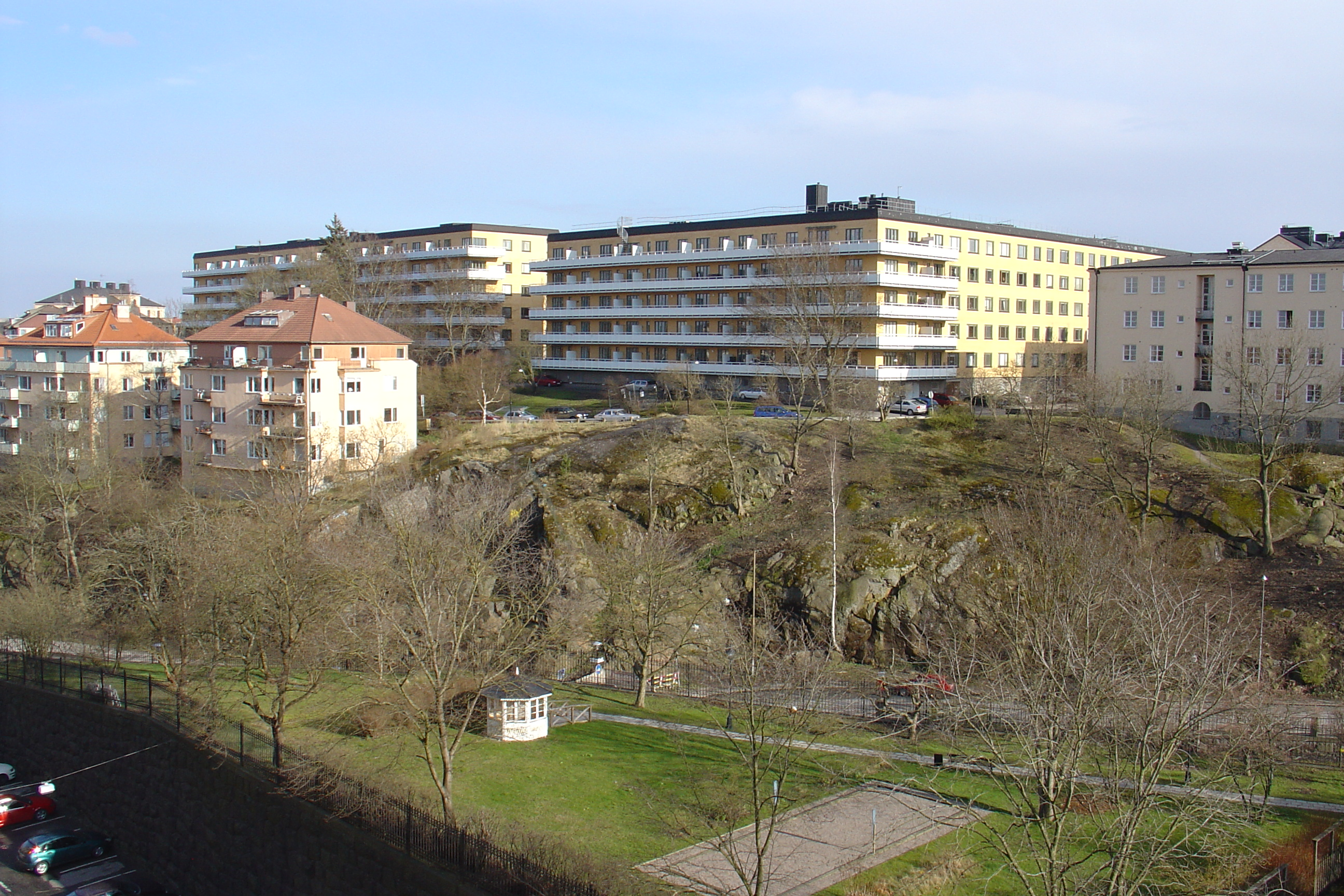 Marmorn in Stockholm